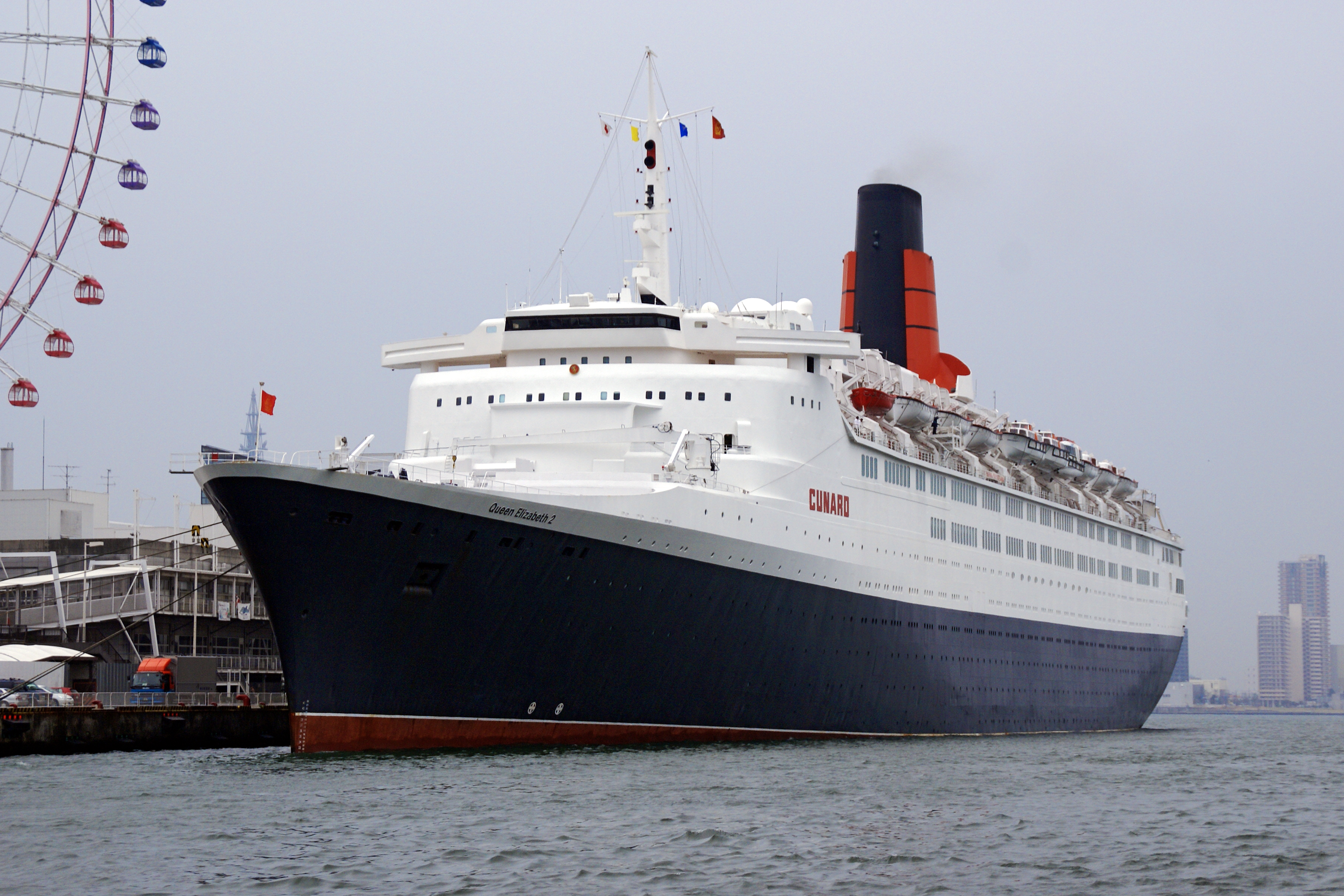 "RMS Queen Elizabeth2" at Tenpozan Wharf of the Osaka harbor, Osaka, Osaka prefecture, Japan